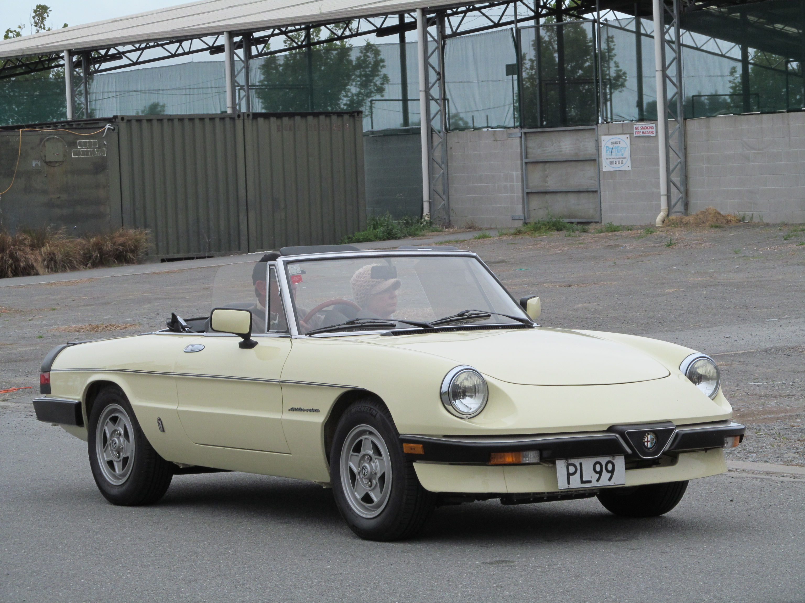 A US import (as the majority of them are being the Spider's largest export market), in a neat sweet cream colour.